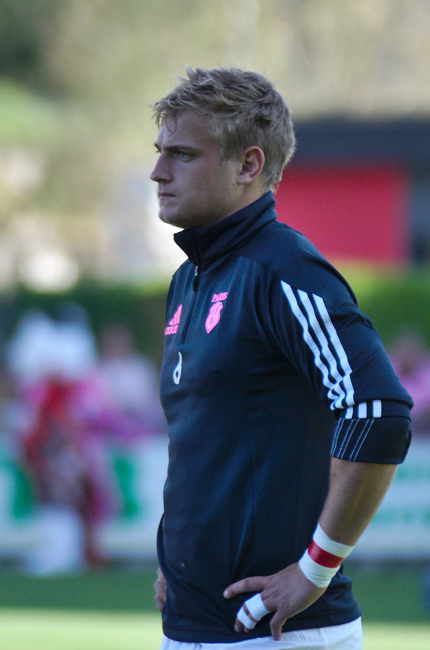 USO-SFP - 20140830 - Jules Plisson